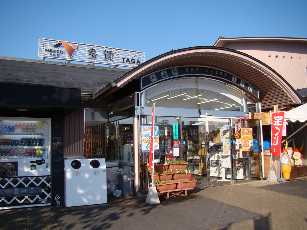 Taga service area Meishin expressway Shiga Japan